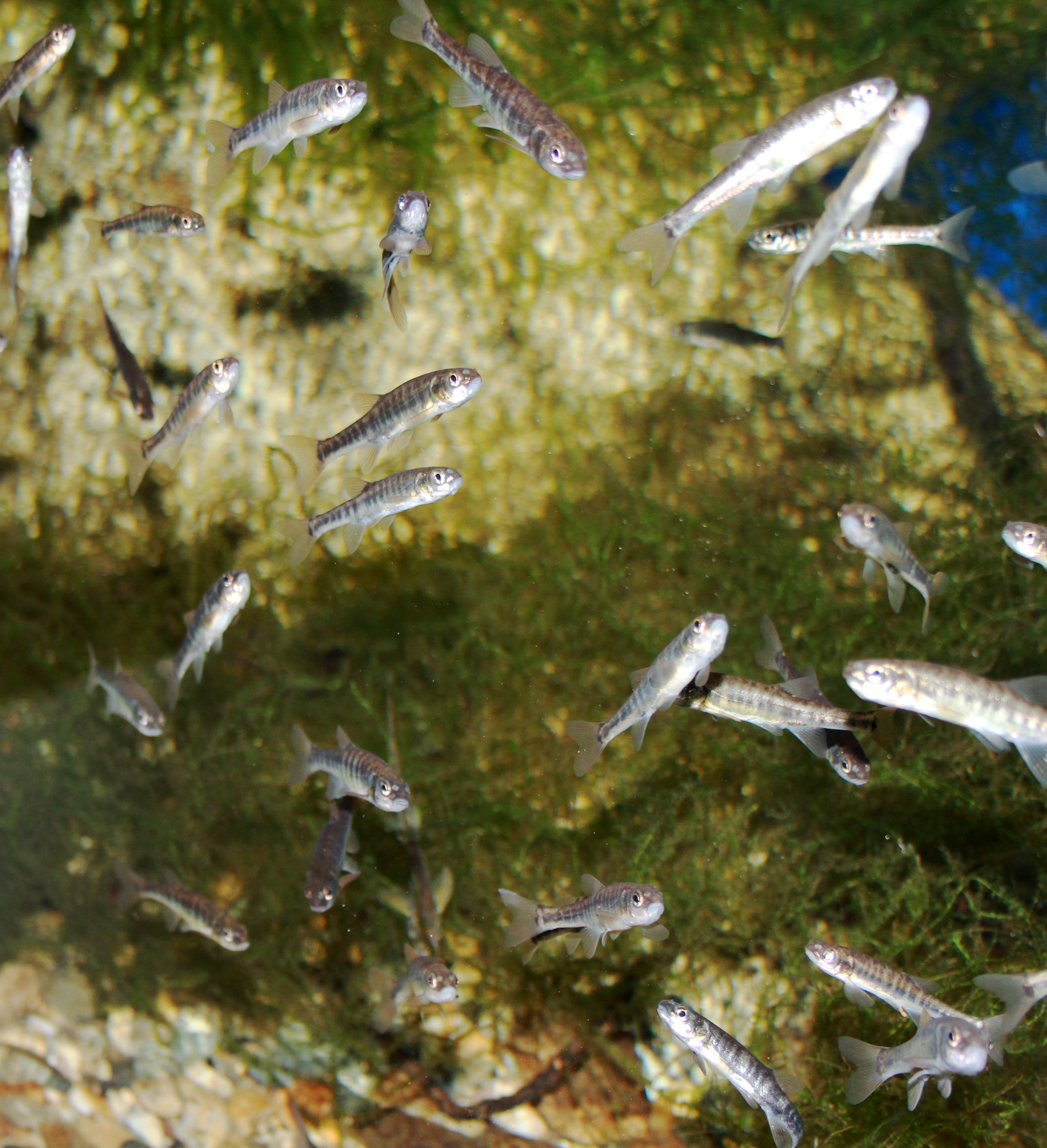 Fish Common minnow on exhibition Subaqueous Vltava, Prague 2011, Czech Republic